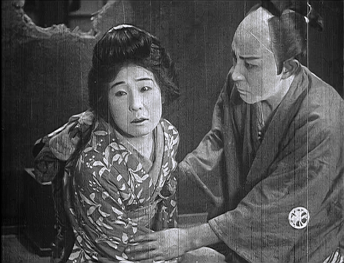 Reiko Shimizu (清水れい子) and Tsumasaburō Bandō in Gyakuryū (逆流) directed by Buntarō Futagawa - 1924